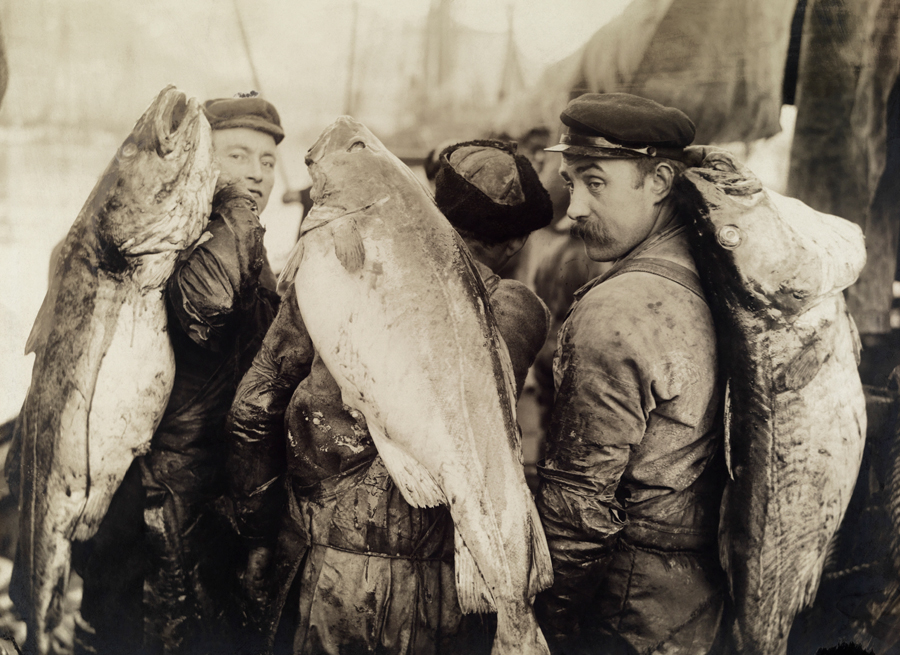 Four-foot long cod are slung across the backs of cod fishermen, February 1915. Photograph by A. B. Wiltse, National Geographic